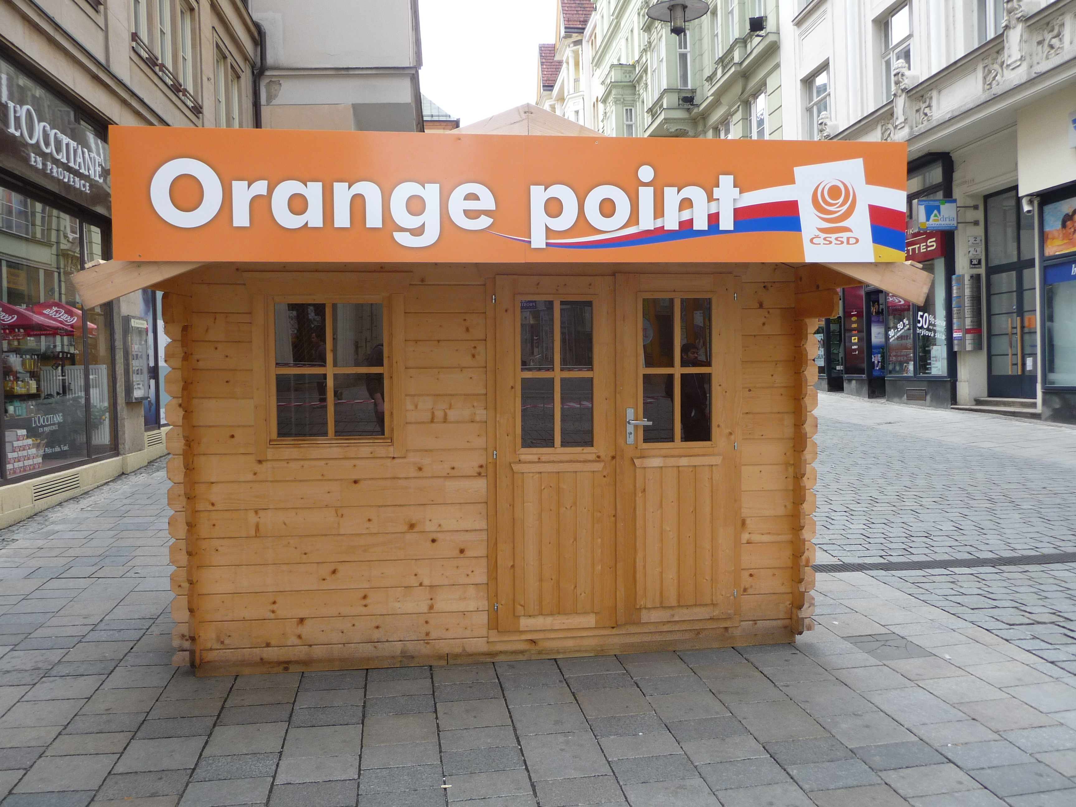 Orange point, kiosk of ČSSD within election campaign before Czech legislative election 2010, in Brno